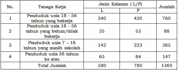 Penduduk Lewoloba Menurut Kesediaan Tenaga Kerja